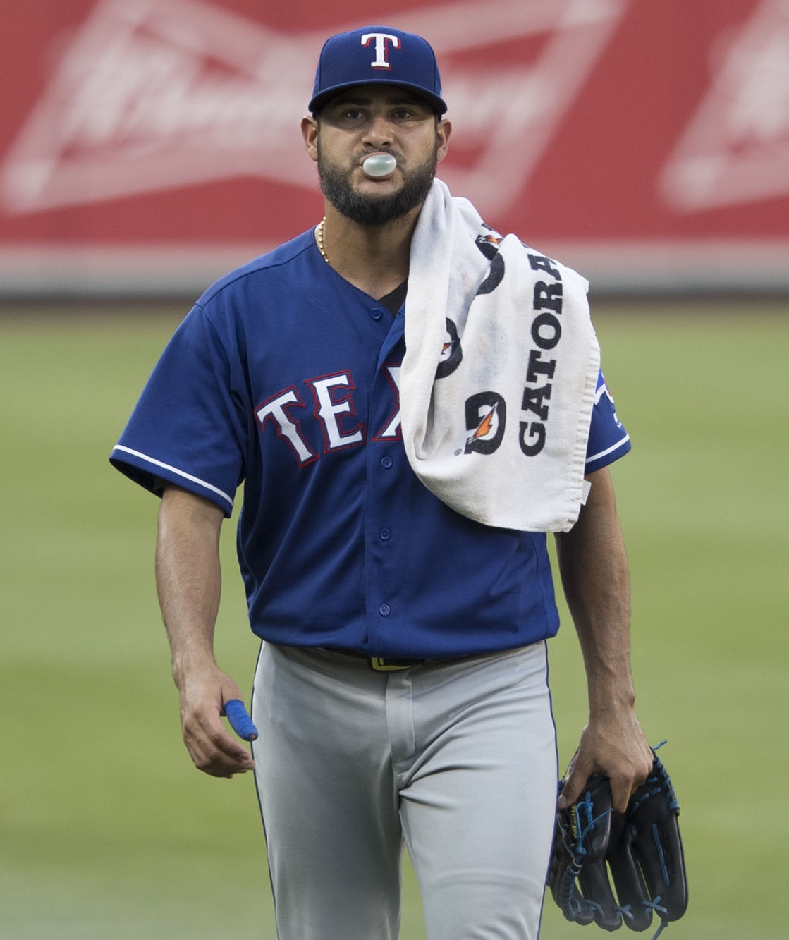 Rangers at Orioles 7/19/17